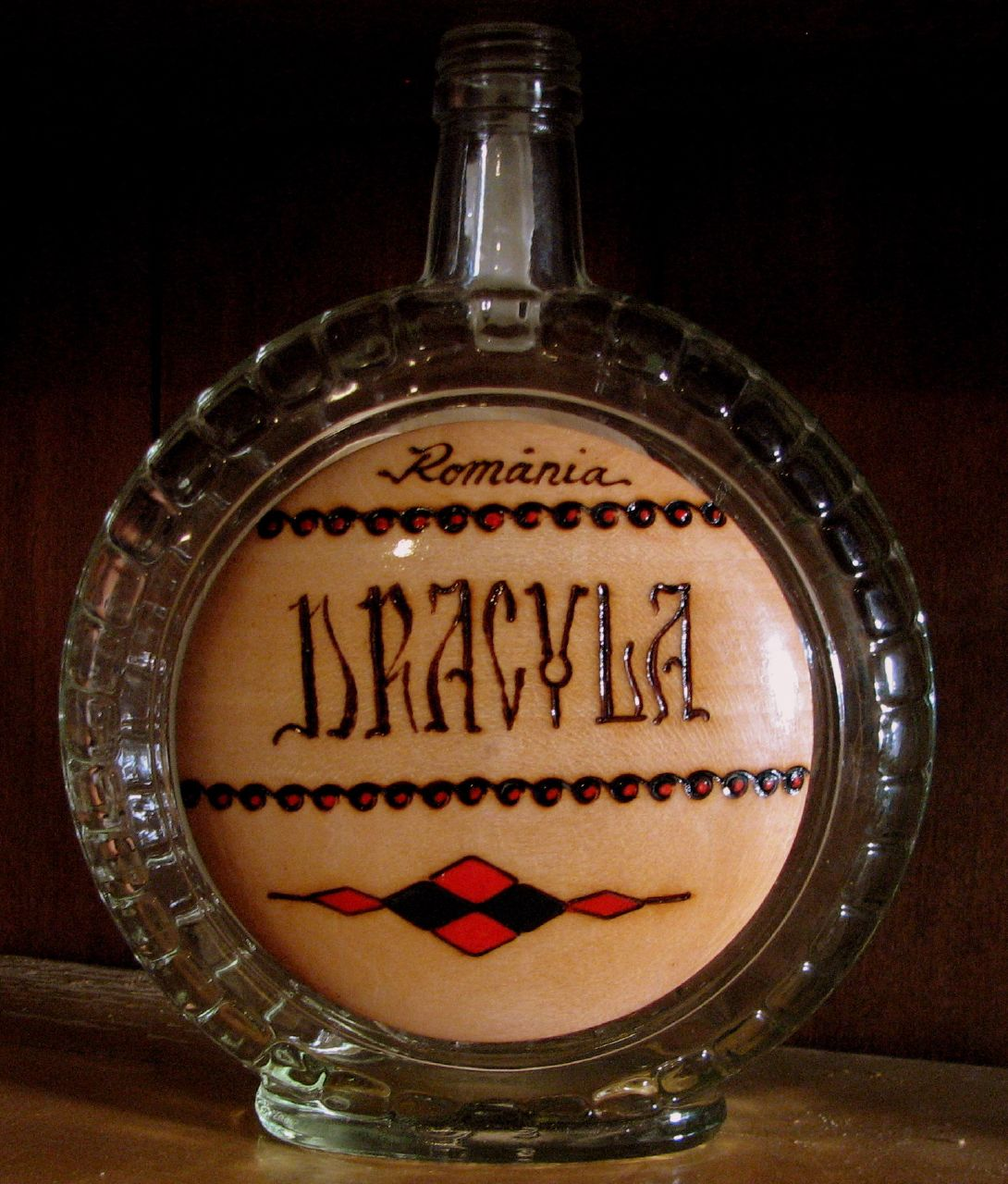 tuica bottle from romania